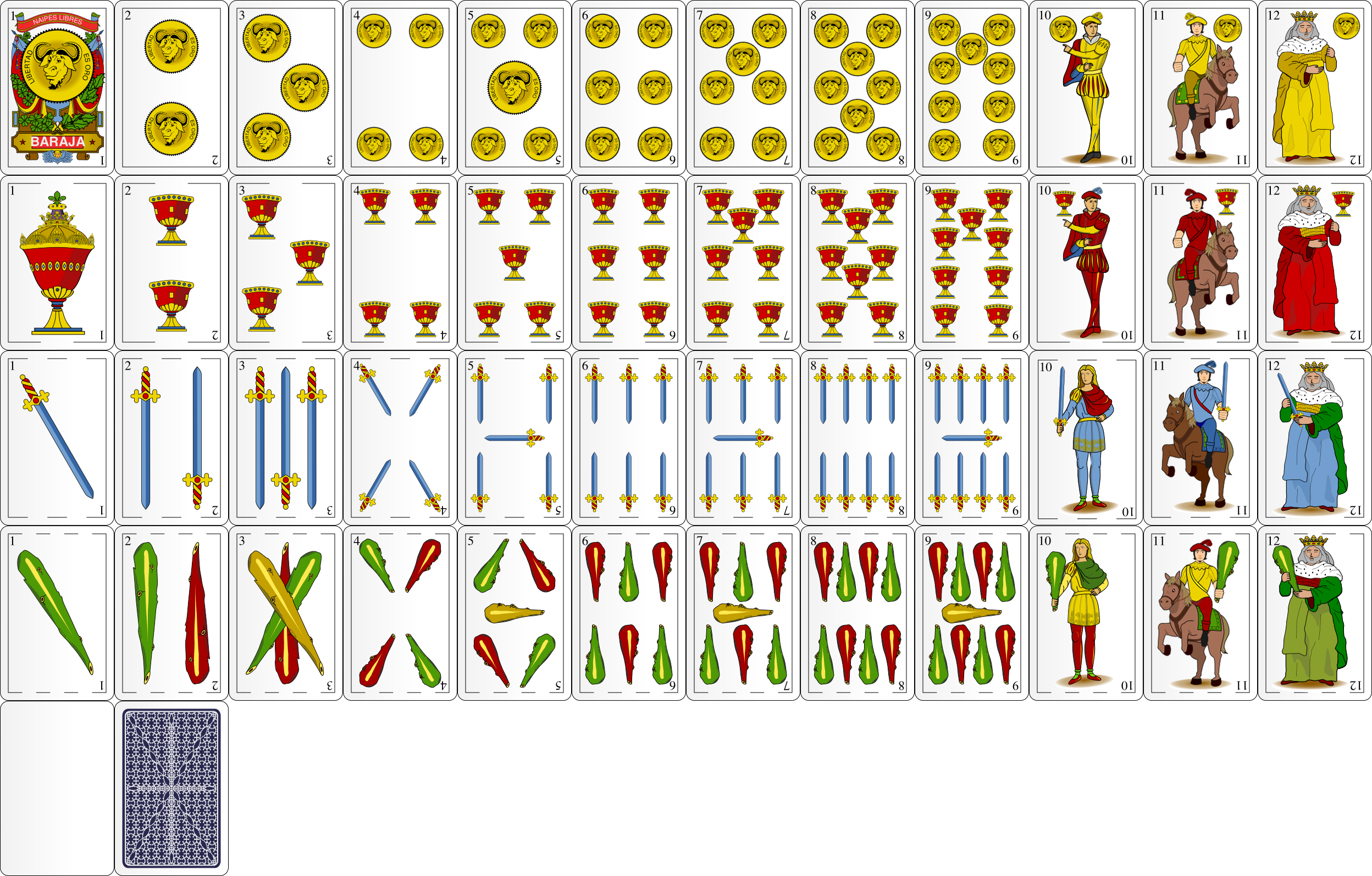 Complete layout of Spanish playing cards 40/48 set